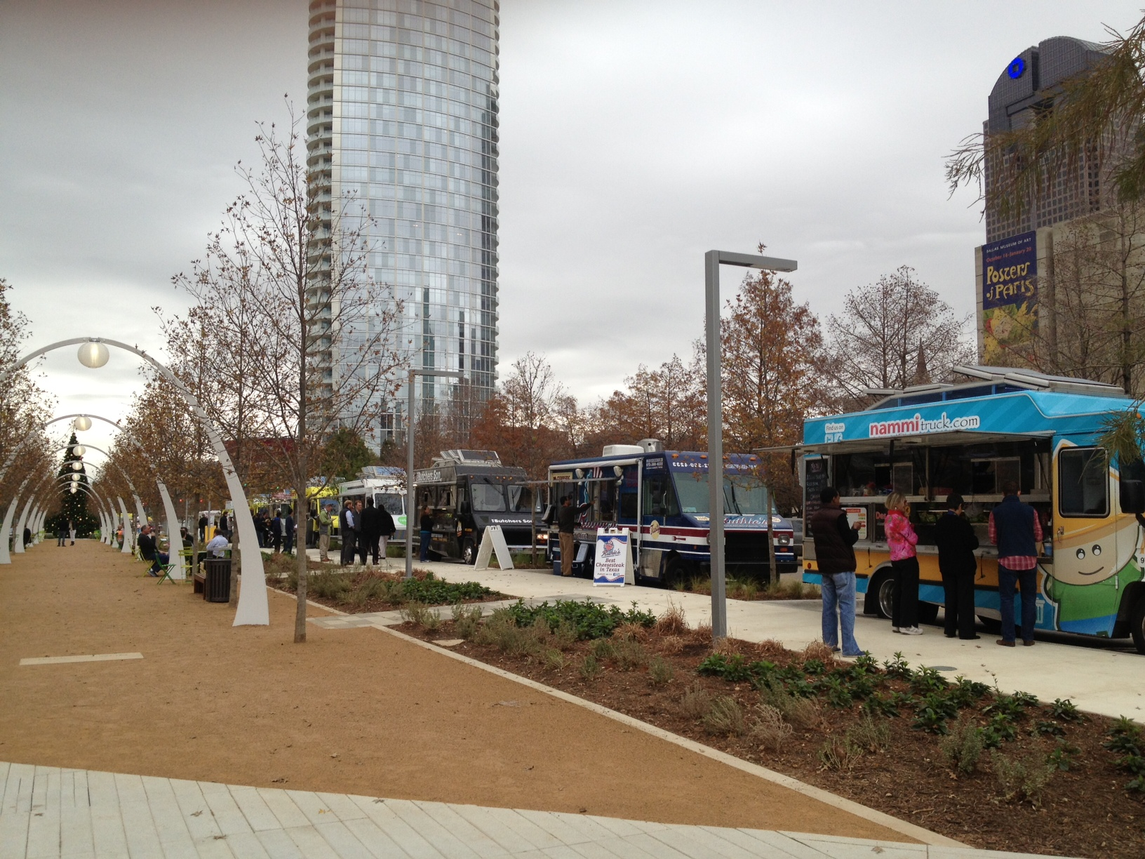 KlydeWarrenPark1